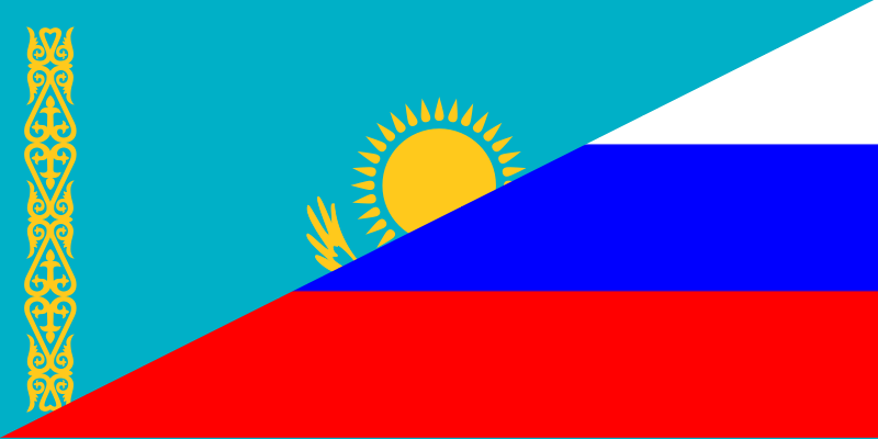 Flag of Kazakh/Russian nationality Hybrid of File:Flag of Kazakhstan.svg and File:Flag of the Russia.svg